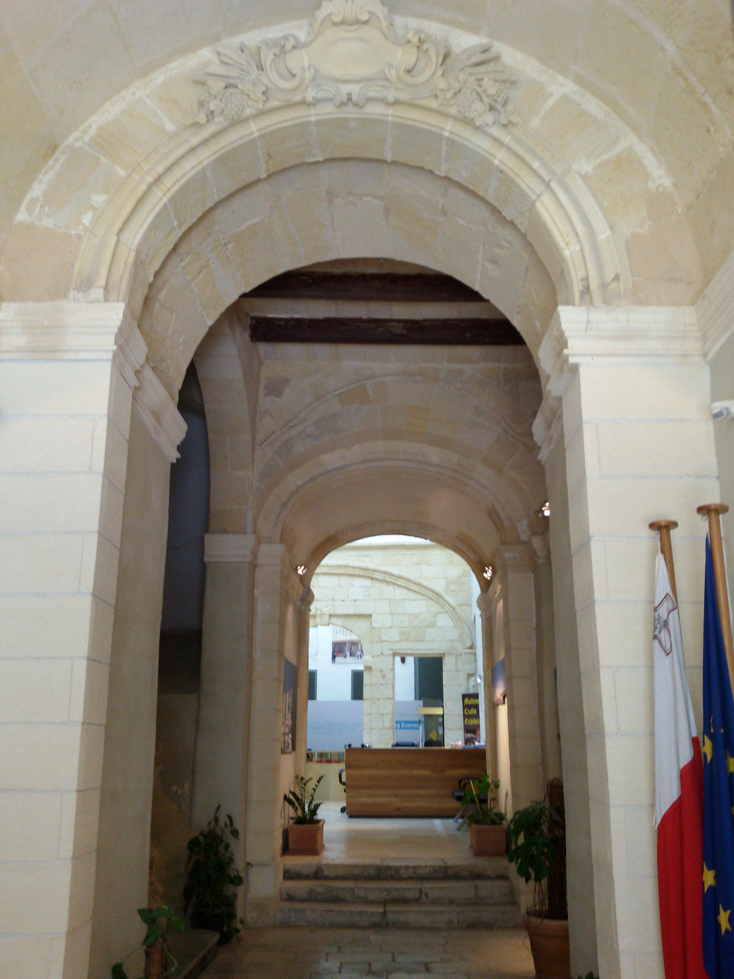 Banca Giuratale interior Valletta